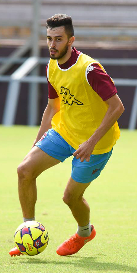 Anderson Leite training on January 14th, 2017.